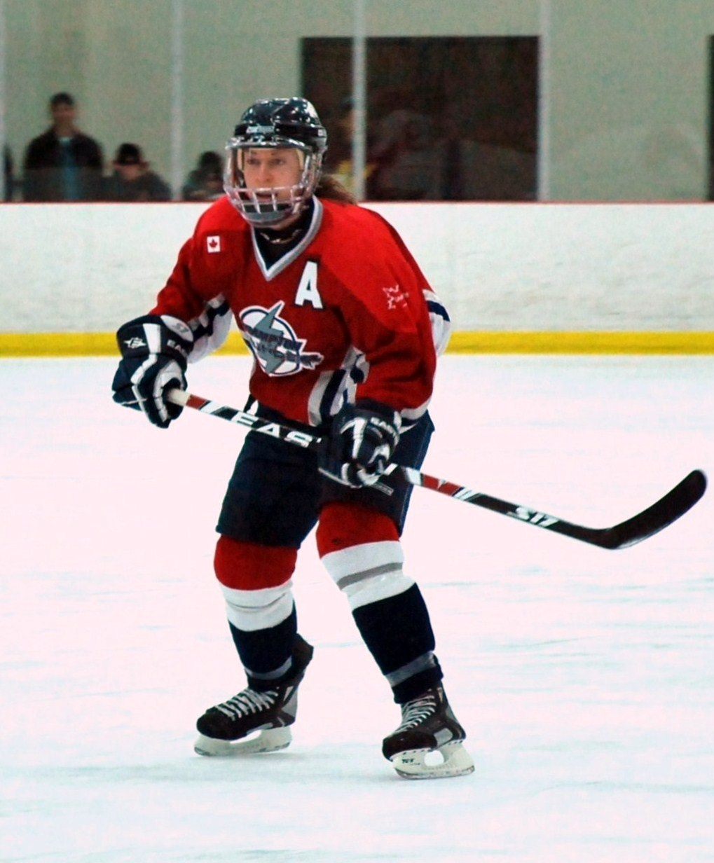 Pictures from Ottawa Senators games during the 2008/09 CWHL season